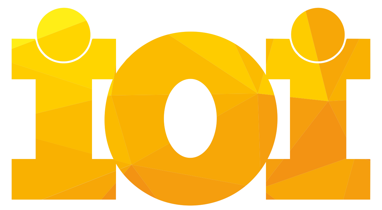 Logo of the International Olympiad in Informatics